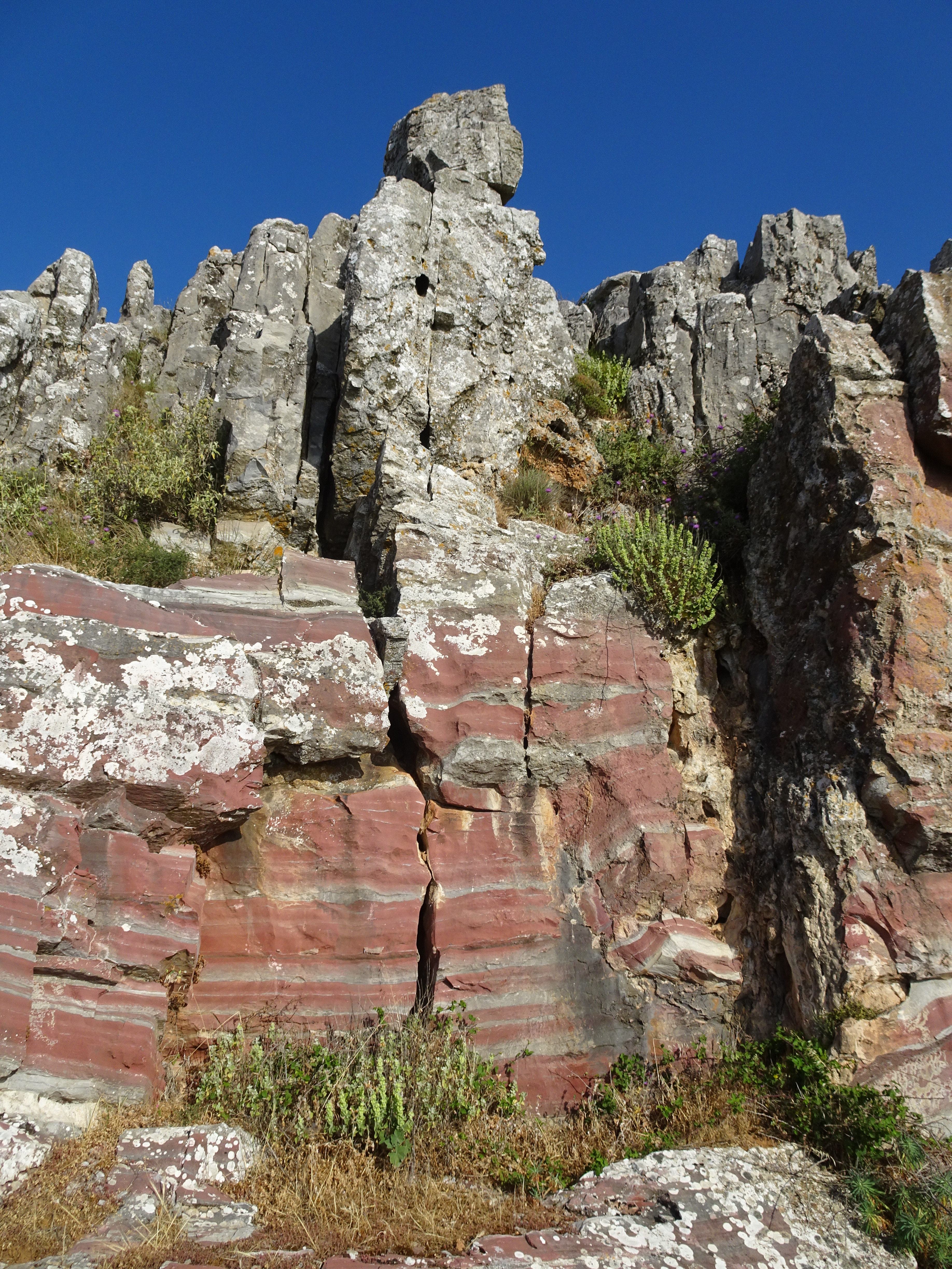 Red Marble of mani peninsula, Laconia Greece